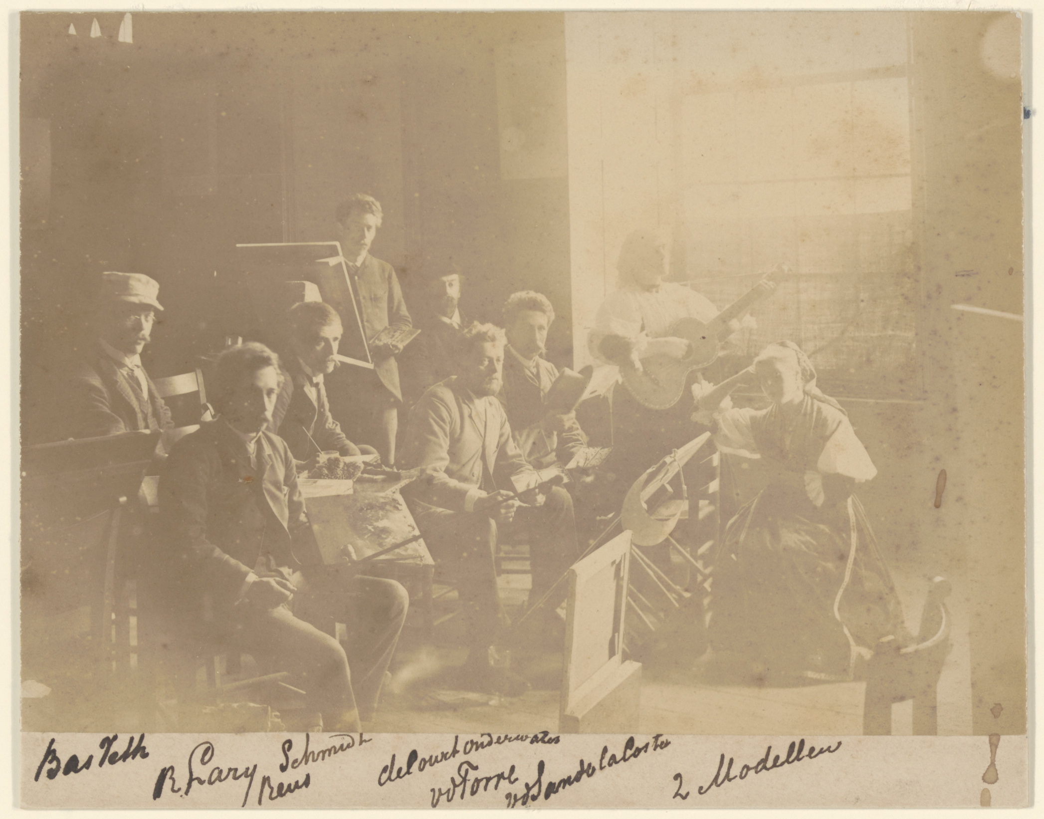 Member of the artists society Teekengenootschap Pictura Dordrecht, the Netherlands at a session with two female models, one with a guitar. From left to right Bas Veth (Arnhem, 12 March 1861 - Gouvieux, 4 April 1944), Roland Lary (also known as Roeland Larij, Dordrecht, 22 December 1855 - same place, 23 December 1932), Marinus Pieter Reus (1865-1938), Schmidt, Henk de Court Onderwater (Dordrecht, 6 August 1877 - ibidem, 8 May 1905), Van de Torre, Carel Eliza van der Sande Lacoste, 1860 - 1894)